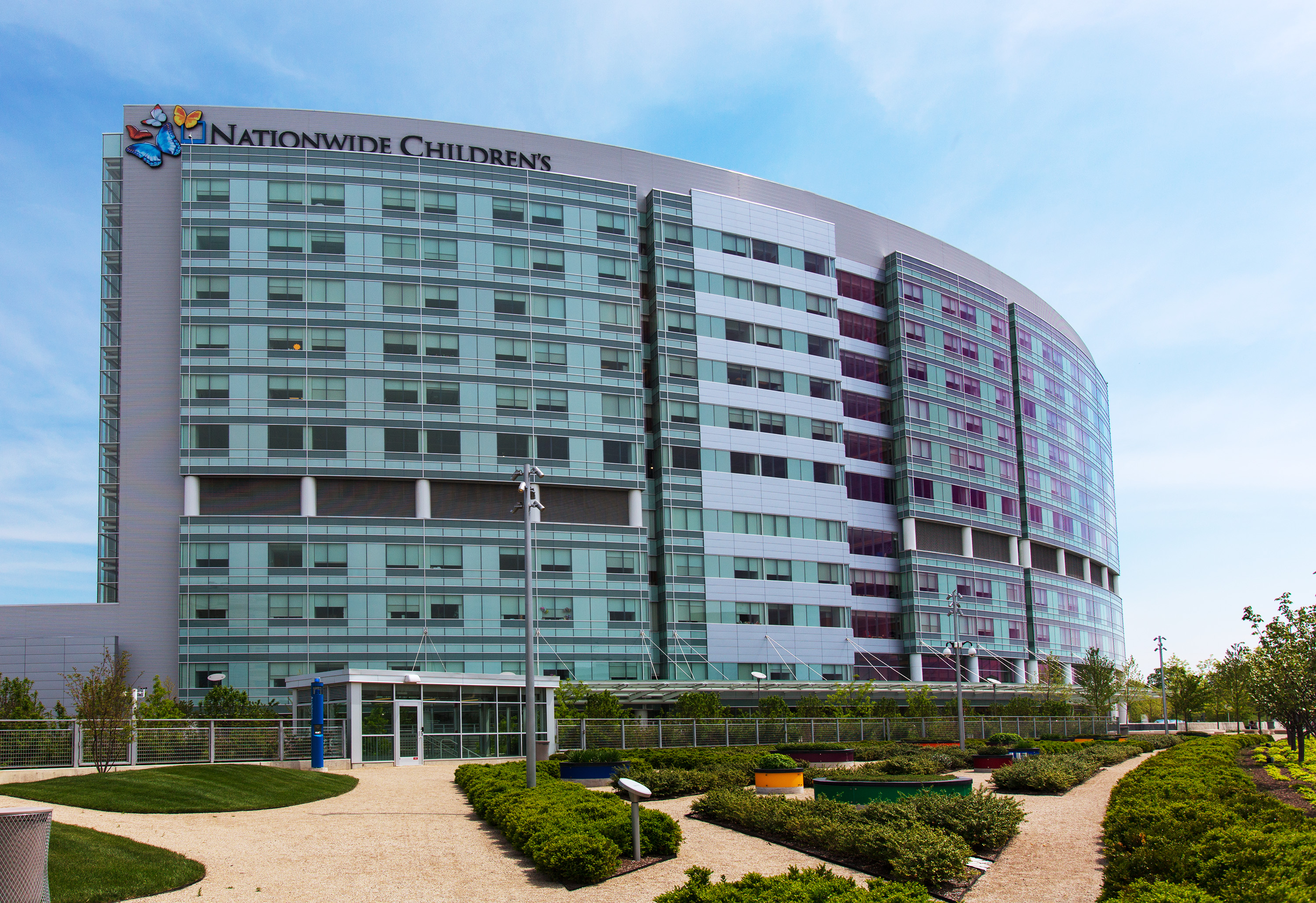 Exterior view of Nationwide Children's Hospital from the Fragrance Maze